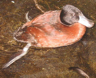 An Argentine blue-bill